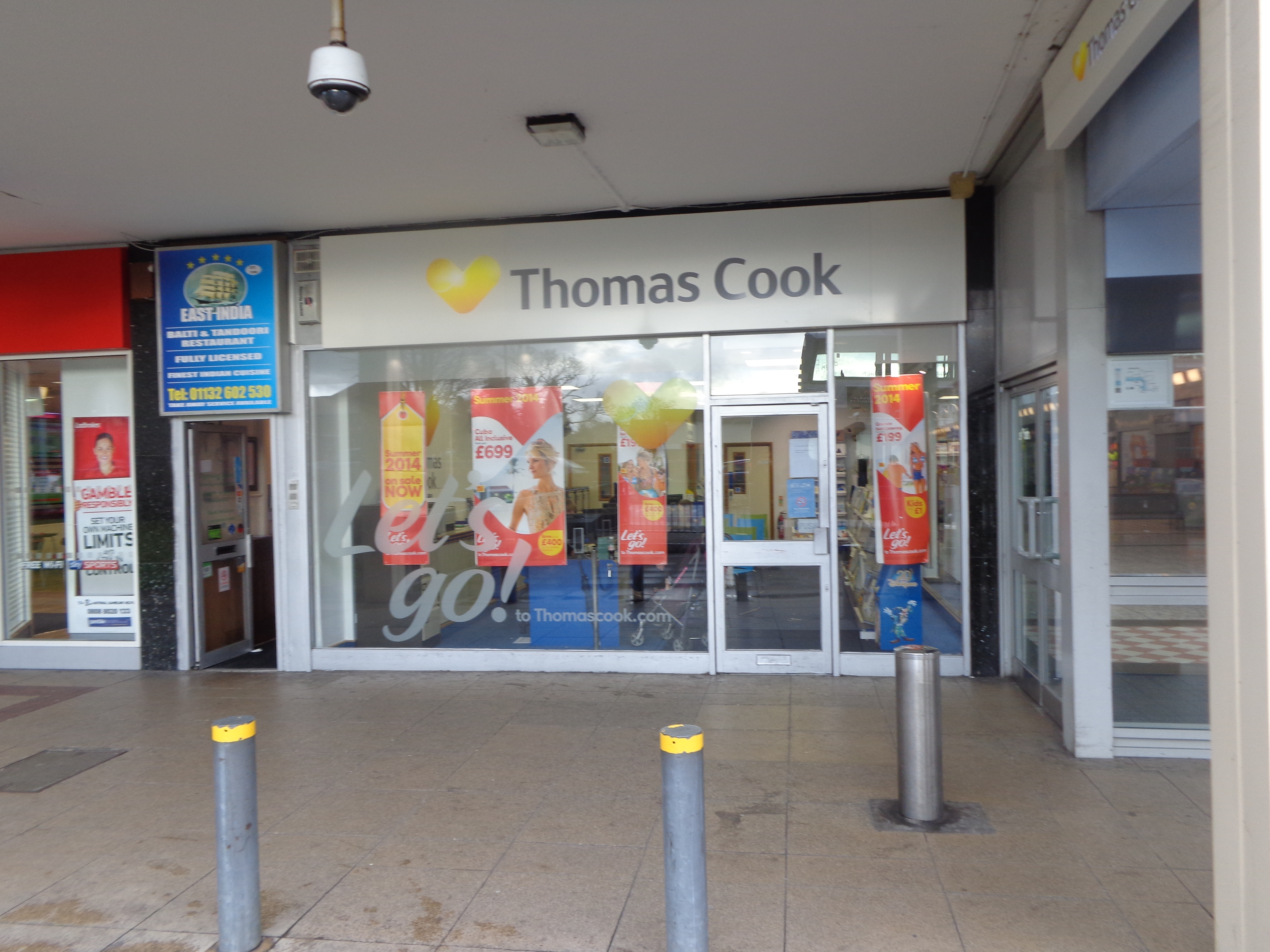 Thomas Cook, Cross Gates Centre, Cross Gates, Leeds, West Yorkshire. Taken on the afternoon of Saturday the 22nd of March 2014.